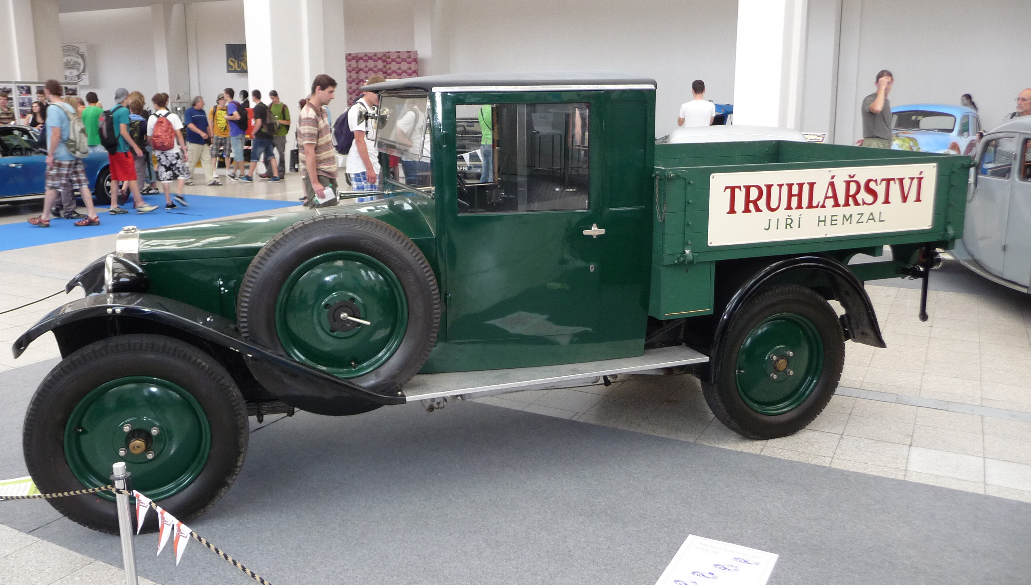 Zbrojovka Z 4/18HP lorry, year 1929, Classic Show Brno 2011, The Brno Exhibition Grounds -10 -5 -3 -2 ◄ ► +2 +3 +5 +10